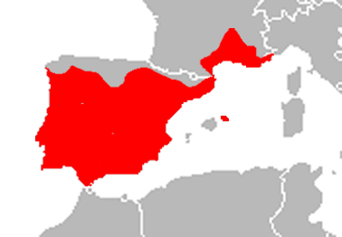 Rhinechis scalaris range map.